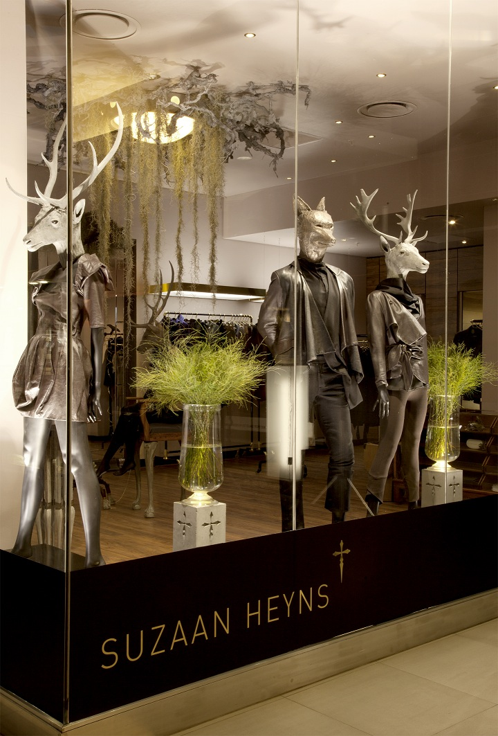 The Melrose Arch Store first opened in August 2012